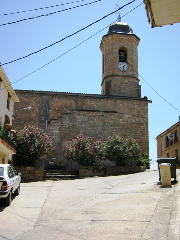 Saint Joseph Church in Bovera